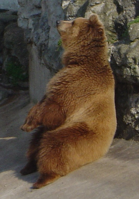 A bear from the Jardin d'Acclimatation in Paris.